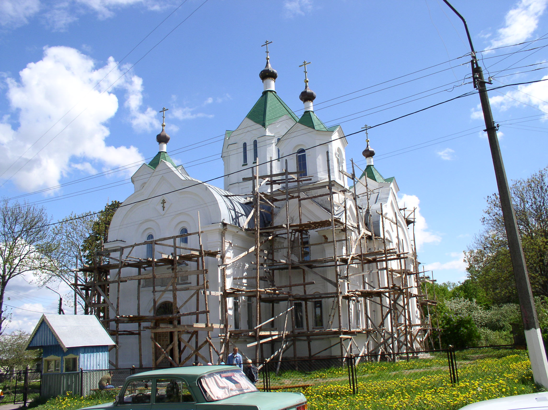 Church of Saint Prophet Elijah. Beshankovichy, Belarus.